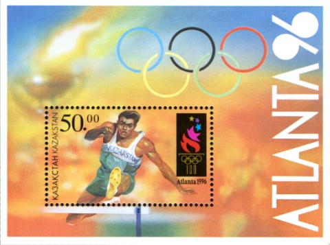 Stamp of Kazakhstan